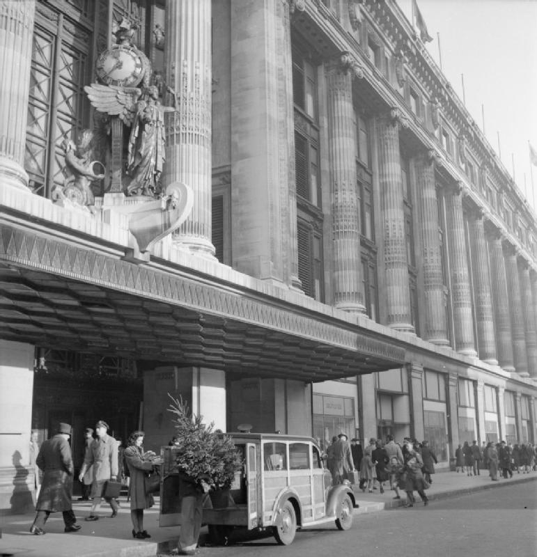 Christmas Party For Trooper Devereux's Daughter- Christmas in Wartime, Pinner, Middlesex, December 1944 Outside the main entrance to Selfridge's department store on Oxford Street, representatives of the YMCA load the Christmas tree they have just purchased into their van. The tree is destined for Mrs Devereux and her daughter Jean, a present from Mrs Devereux's husband, currently serving overseas. The tree has been purchased through the 'Gifts to Home League' of the YMCA.